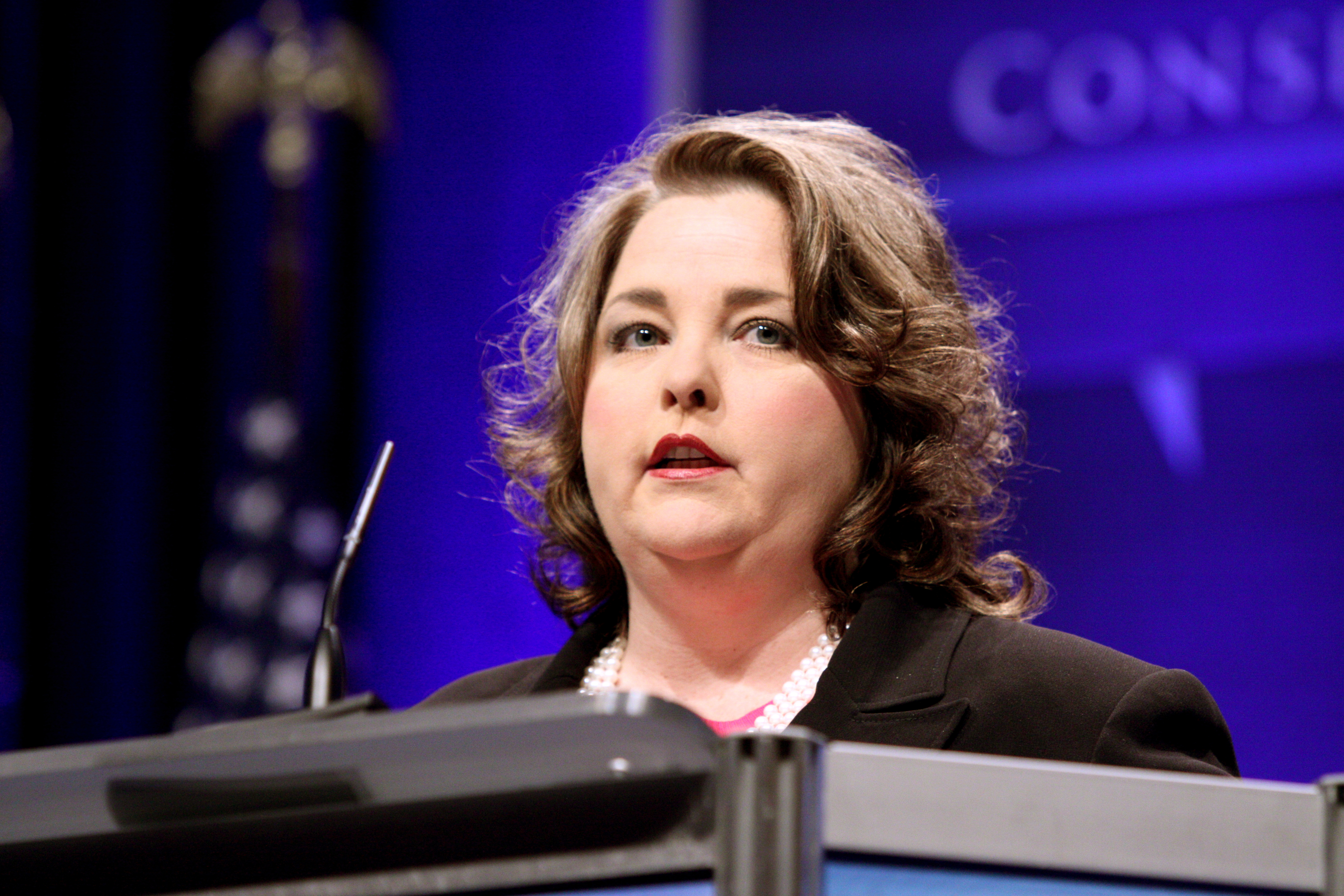 Amy Kremer speaking at the 2011 Conservative Political Action Conference